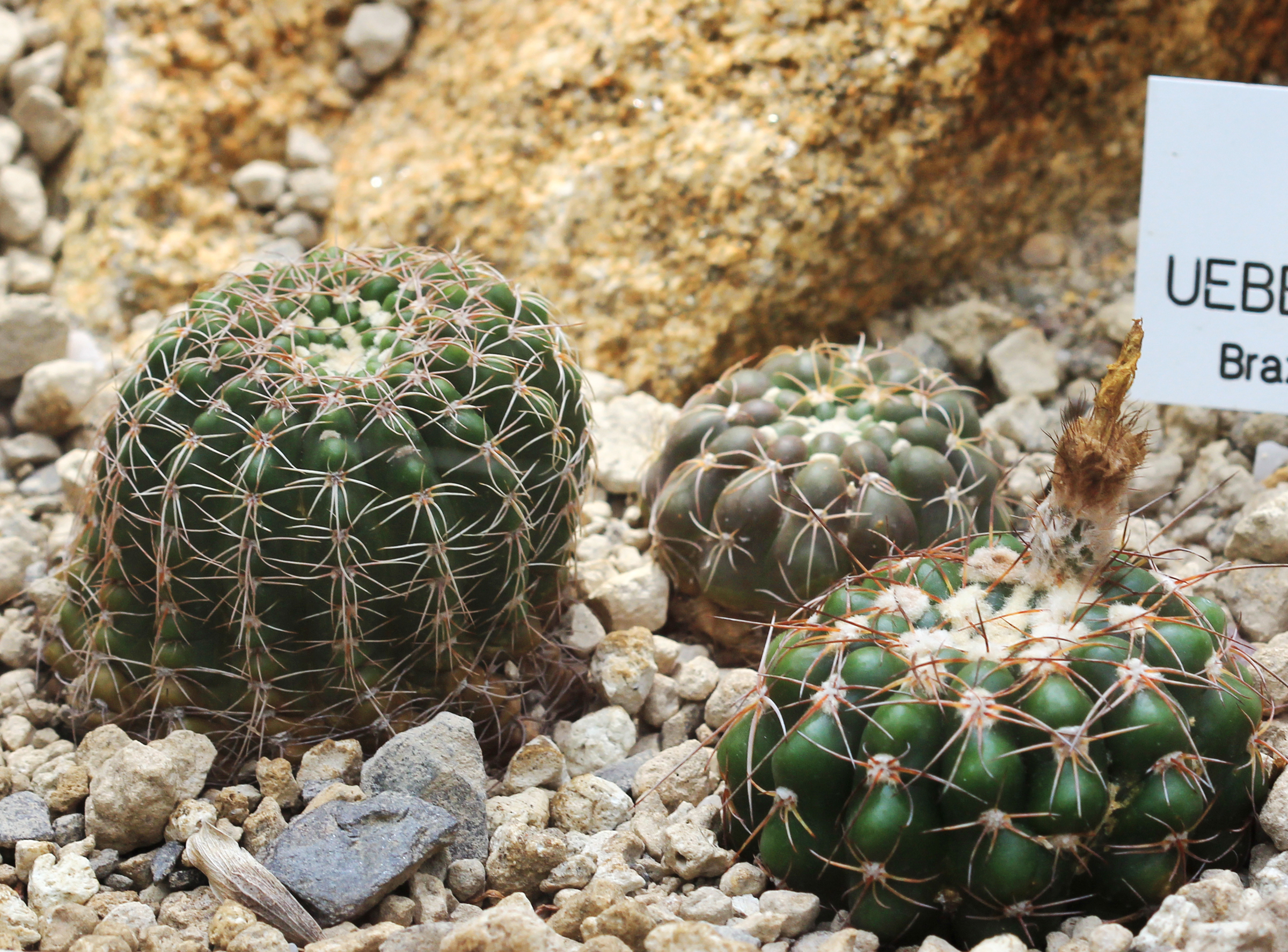 Cactus Notocactus uebelmannianus, (Parodia werneri) in The Botanical Gardens of Charles University, Prague, Czech Republic